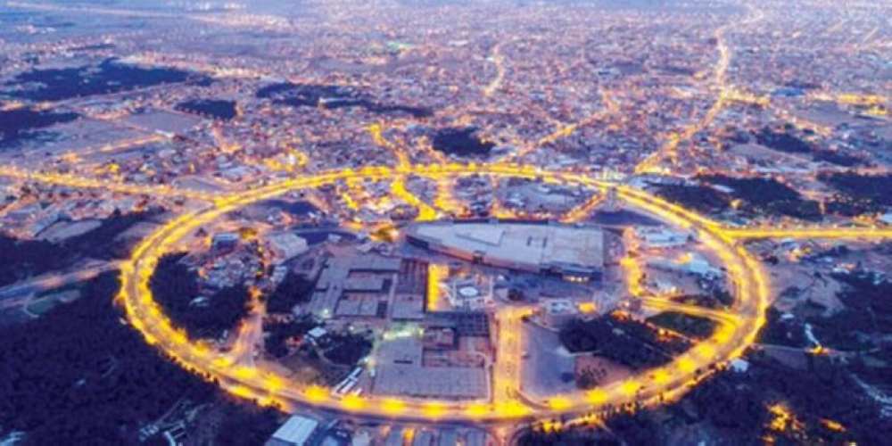 A picture of the internal ring road in Al-shrimyah district in Unaizah and Unaizah Mall showed up in the middle of the picture